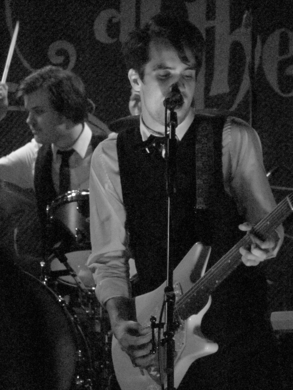 A photograph of Panic! at the Disco's frontman/singer Brendon Urie (front) and drummer Spencer Smith (back) performing at the Bowery Ballroom in New York City, New York, February 1, 2011.